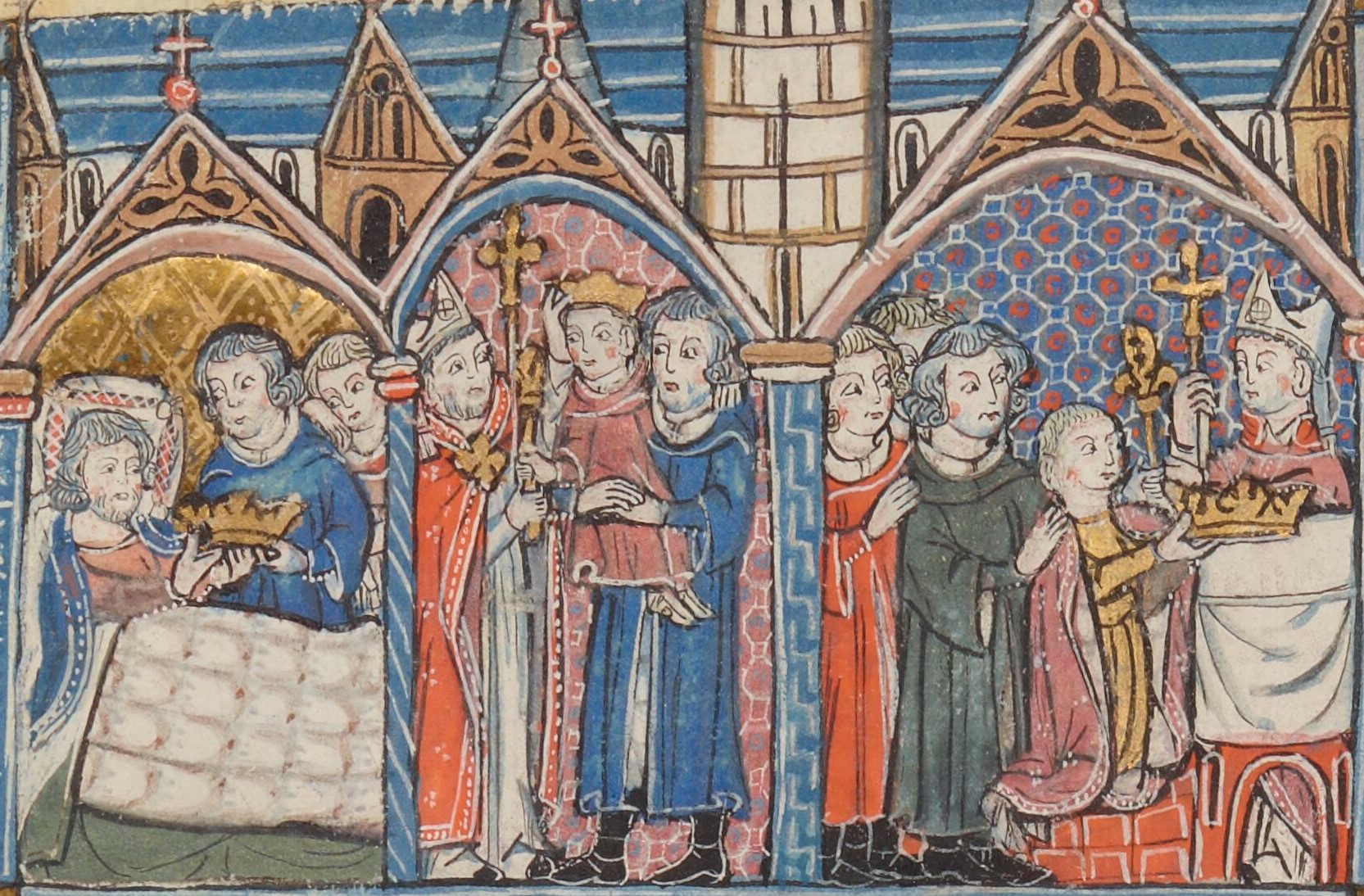 Miniature: Raymond of tripoli named regent; Baldwin V crowned